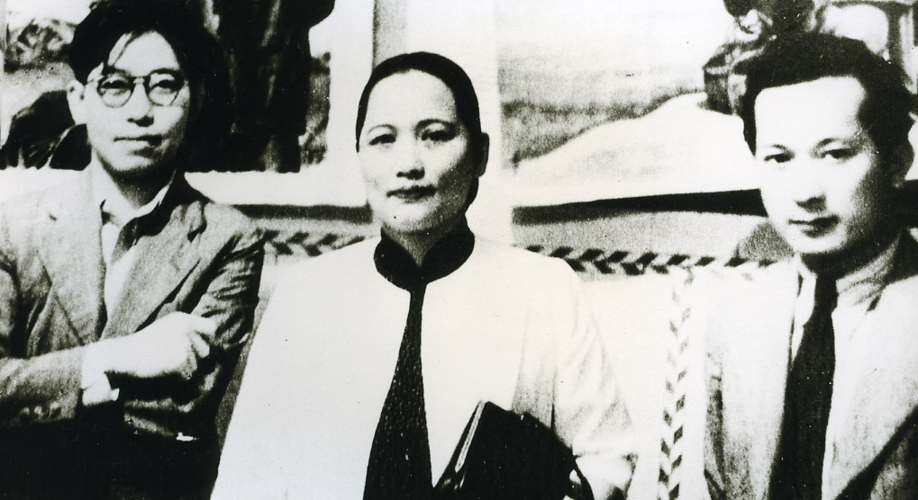 Soong Ching-ling with Ding Cong(left) and Chen Yanqiao(right) 1939年，宋庆龄在香港参观爱国抗日画展，宋庆龄1939年与画家丁聪、陈烟桥合影。